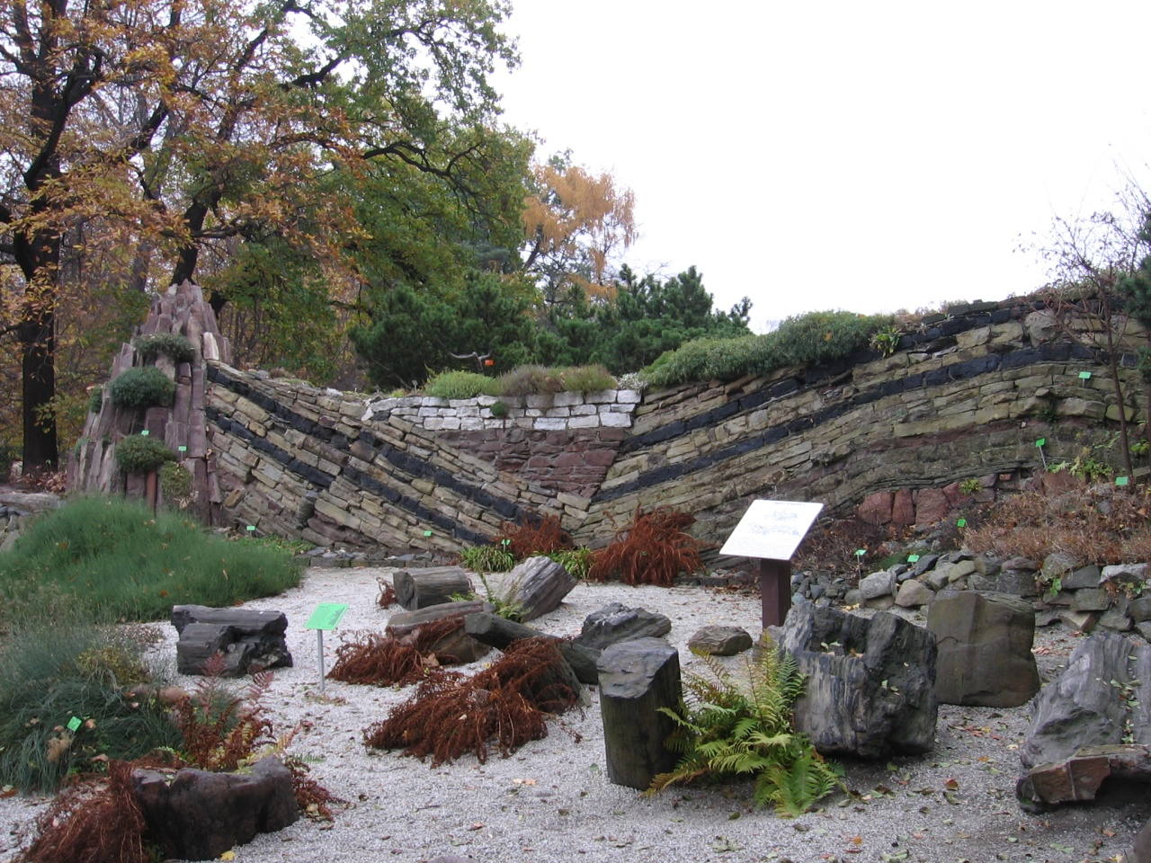 Wrocław, Poland Botanic Garden - exposition of geological profile of coal stratum in mountains near Wałbrzych made in 1856